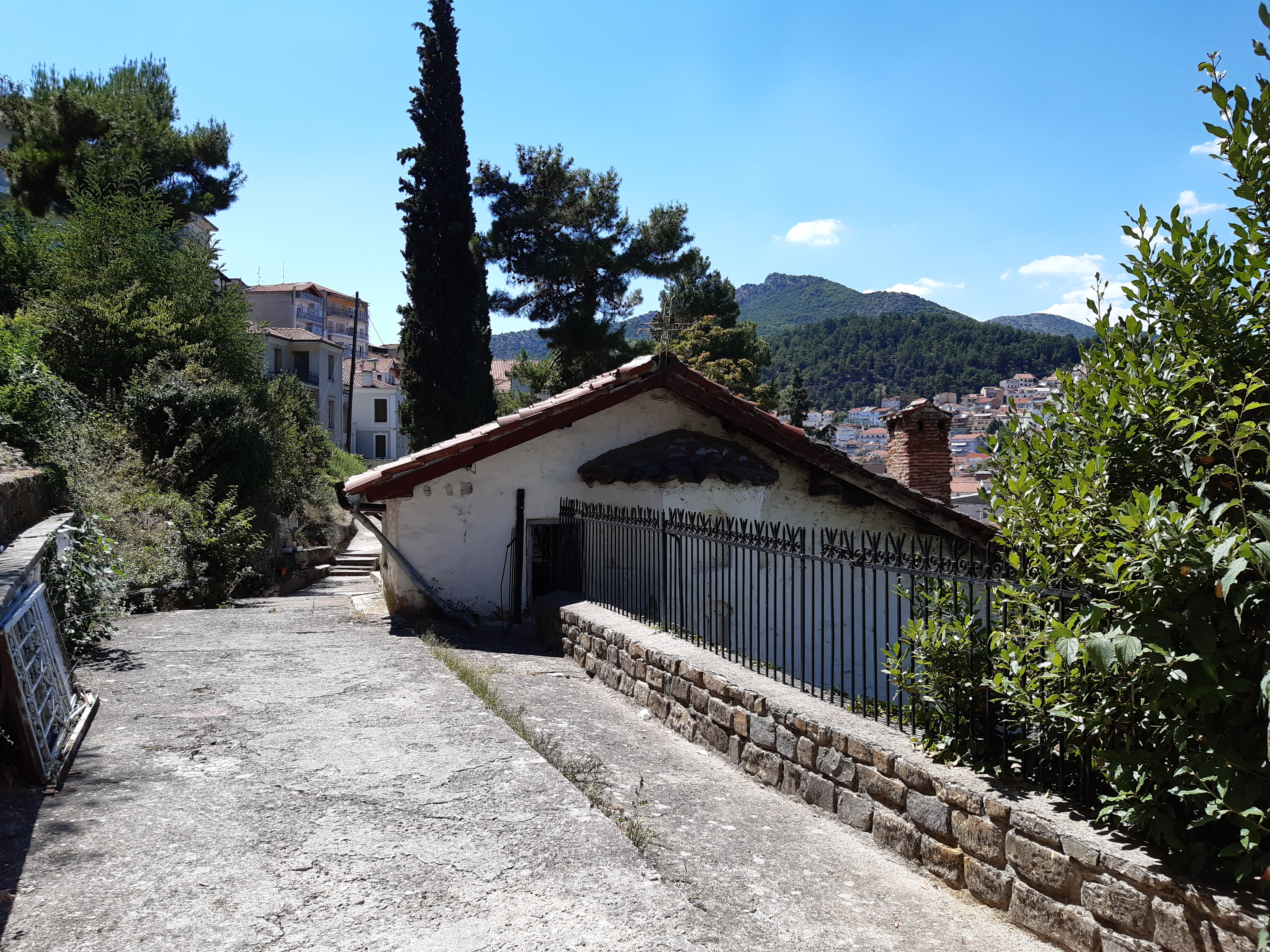 Saint Mary Phaneromeni Church, Kastoria